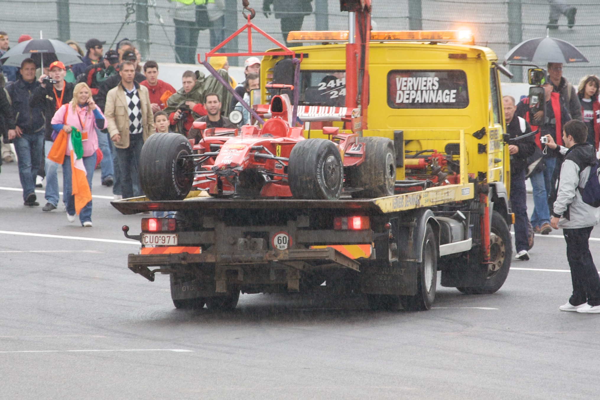 Kimi Räikkönen's crashed Ferrari is towed back to the pits after the 2008 Belgian Grand Prix.